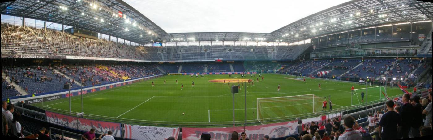 UEFA Euro League group stage group D